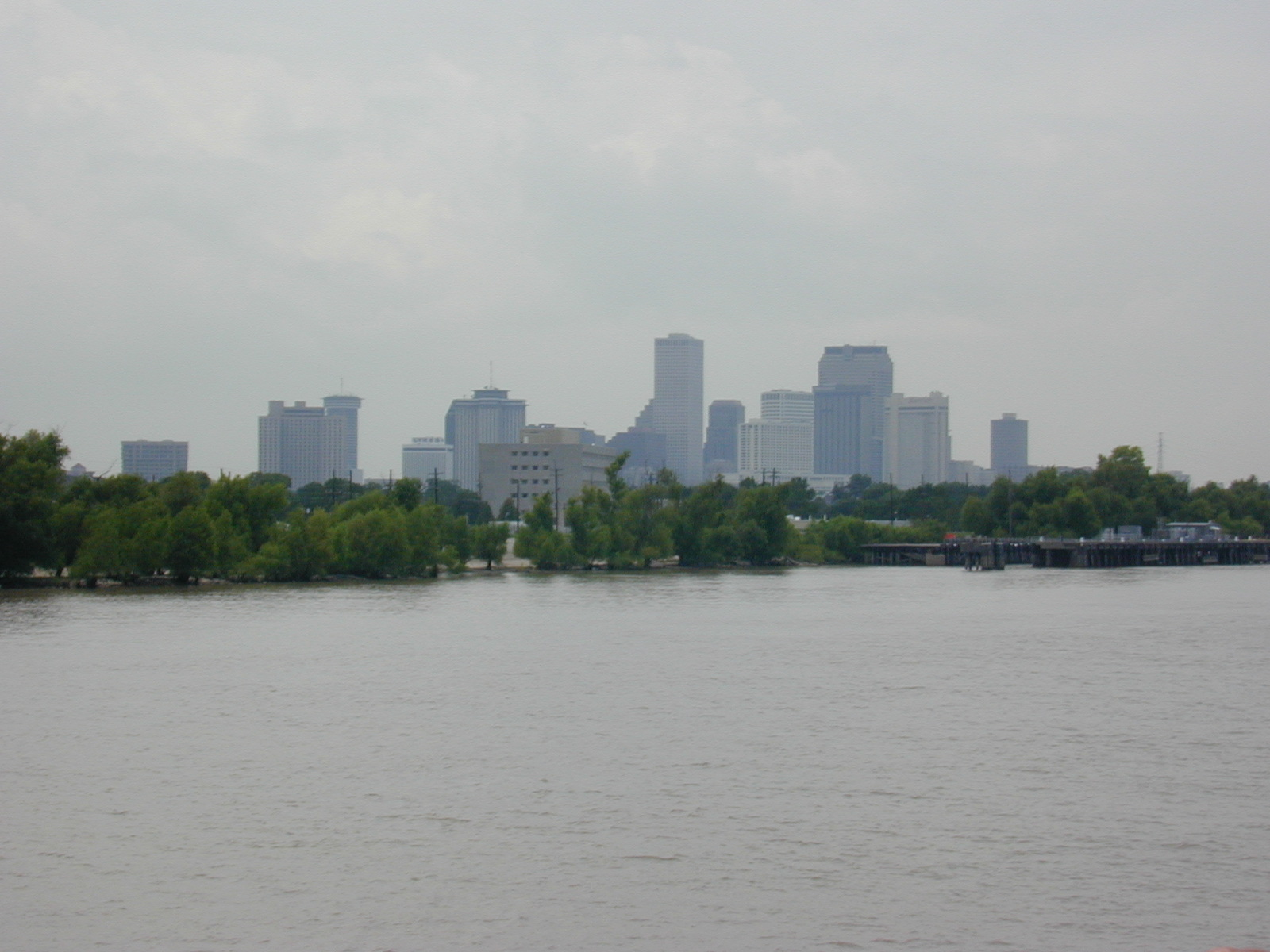 New Orleans skyline as seen from the Mississippi River. Picture taken by Jan Kronsell, July 2004.